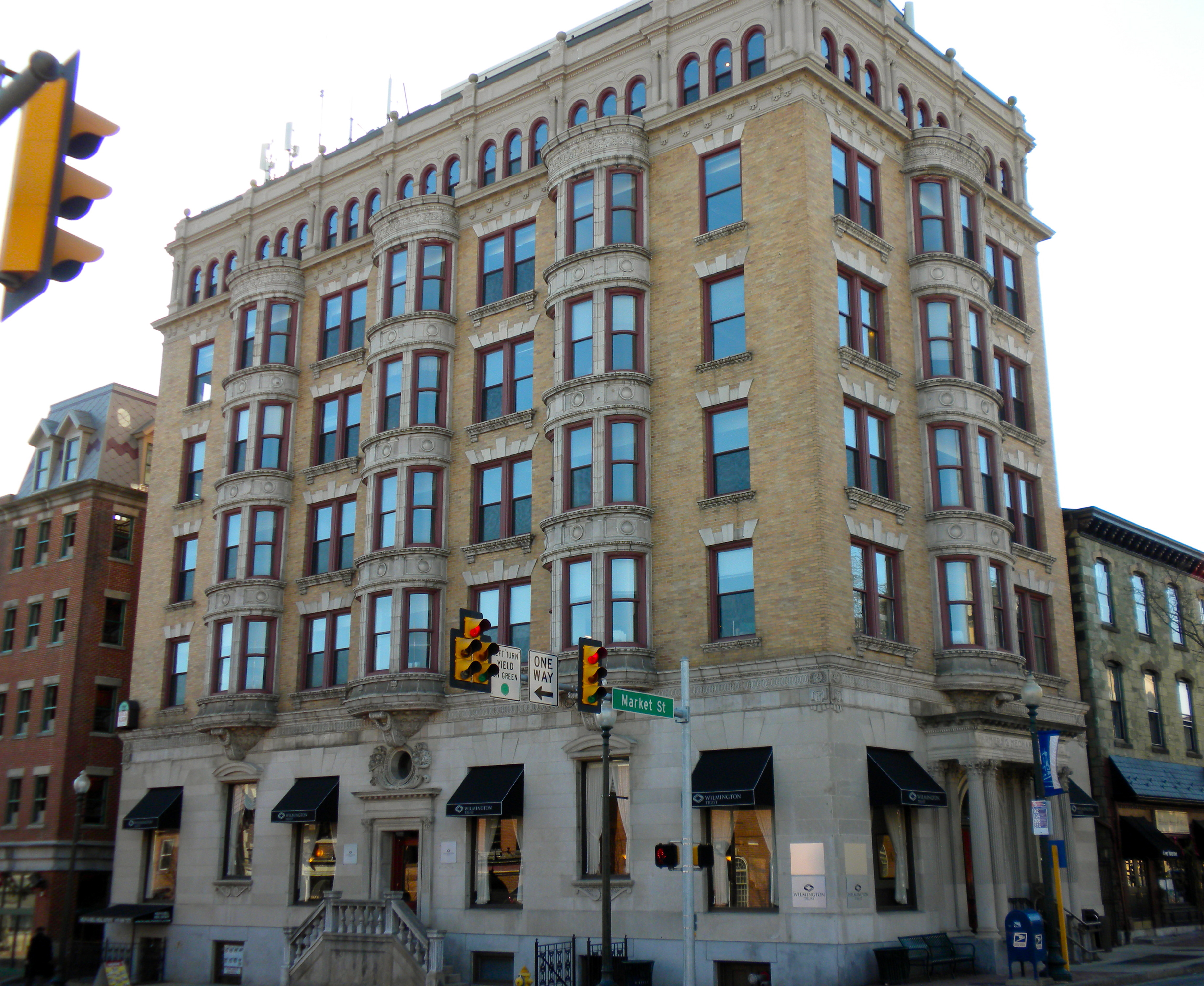 Farmers and Mechanics Building on corner of High and Market Streets, West Chester, PA. On NRHP. I donate this photo to the public domain.